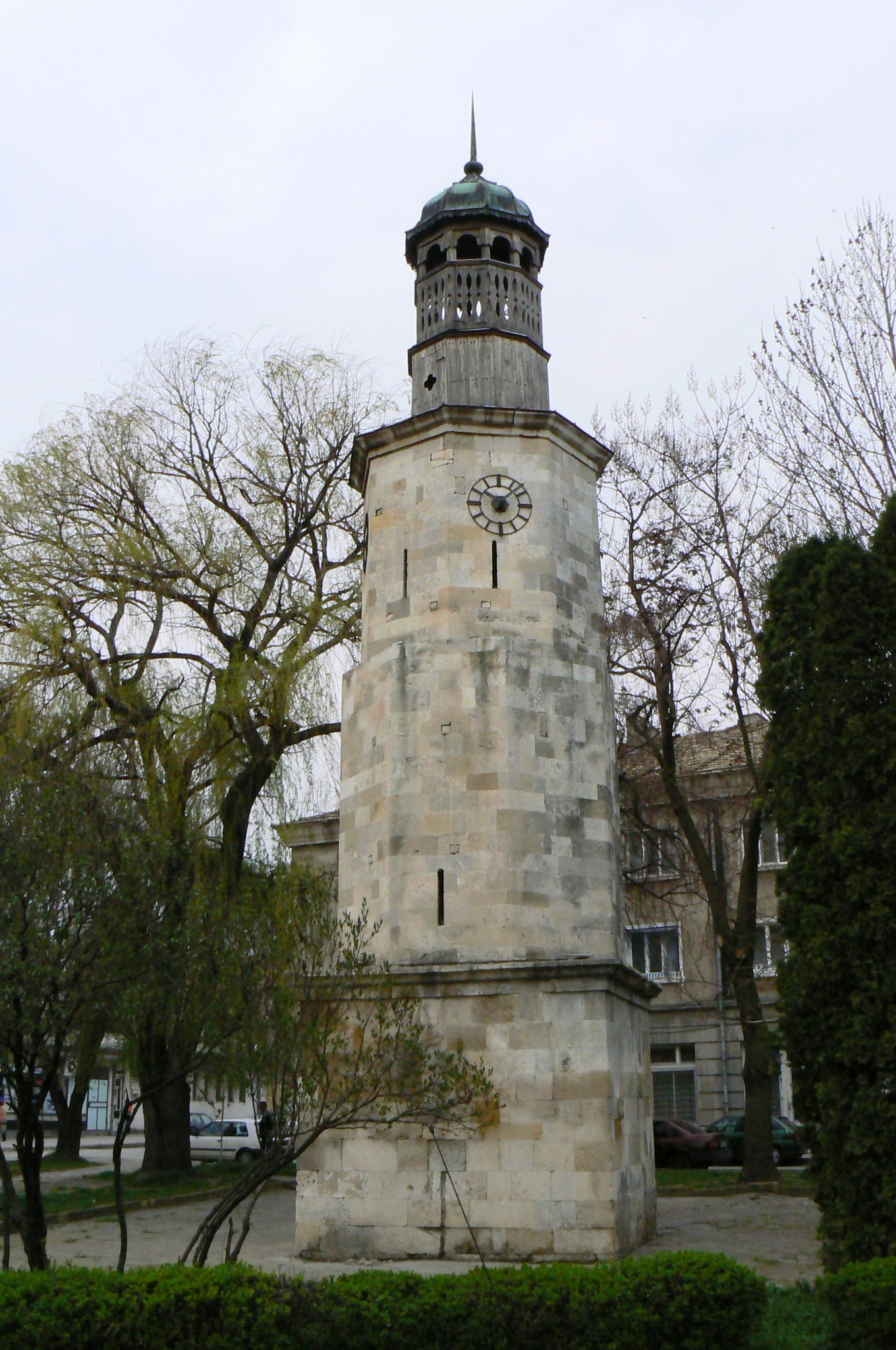 The clock-tower in the centre of Novi Pazar, Bulgaria